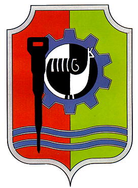 Coat of Arms of Belaya Kalitva (Rostov oblast)1968